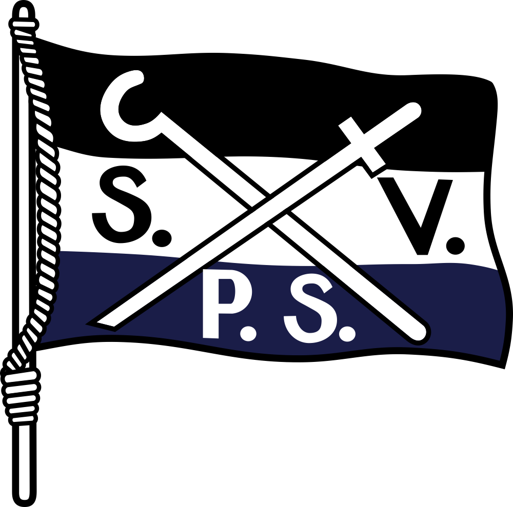 Logo of former german sportclub SV Prussia-Samland Königsberg (1904-1945)